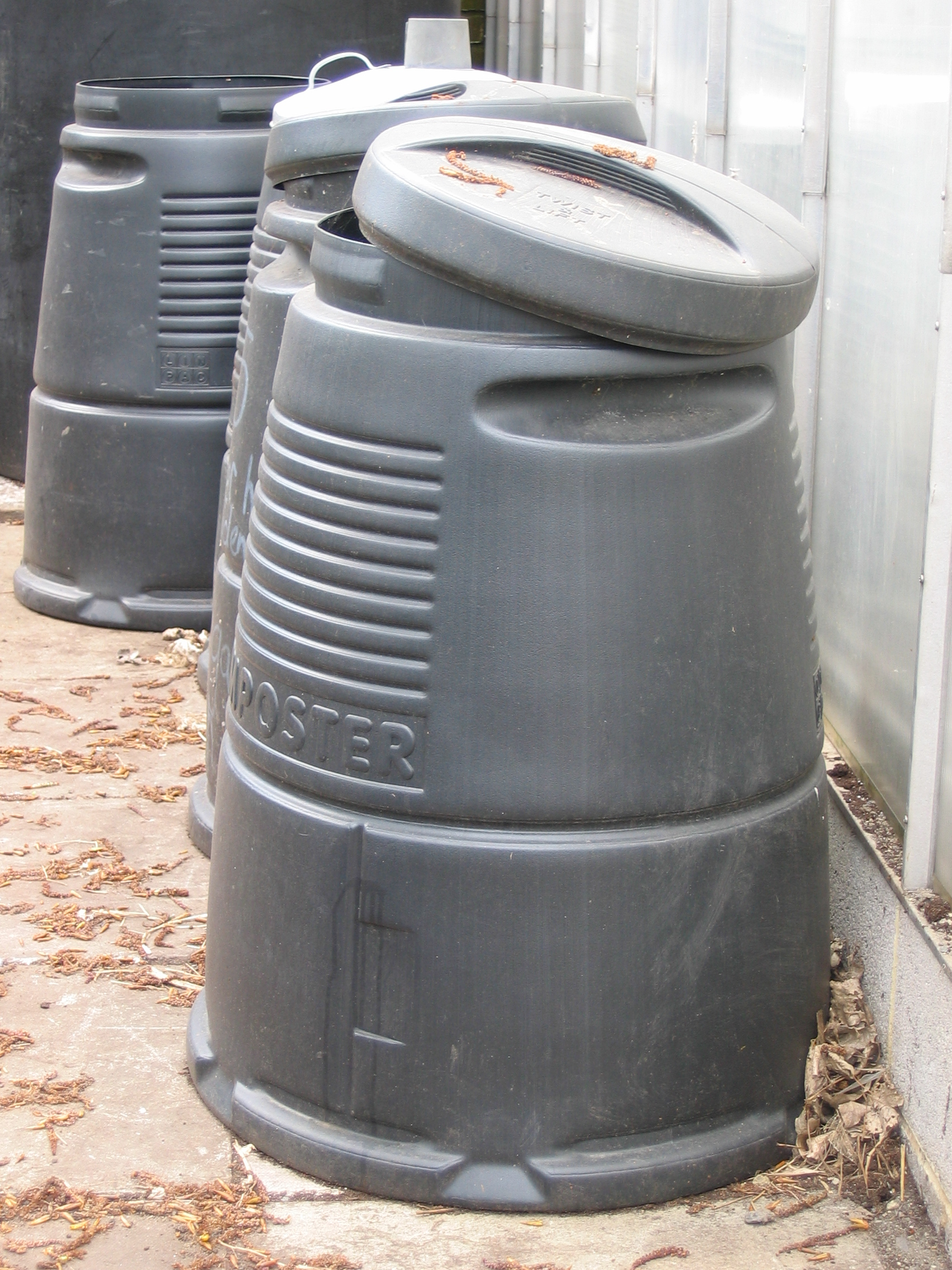 Black domestic compost bin as given away by Tower Hamlets Council